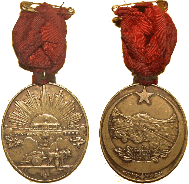 Turkish Medal of independence's front and rear photo.